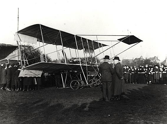 Bristol Boxkite, either no.12A or 14, at Durdham Down, Bristol. Sir George White is standing in front of the aircraft